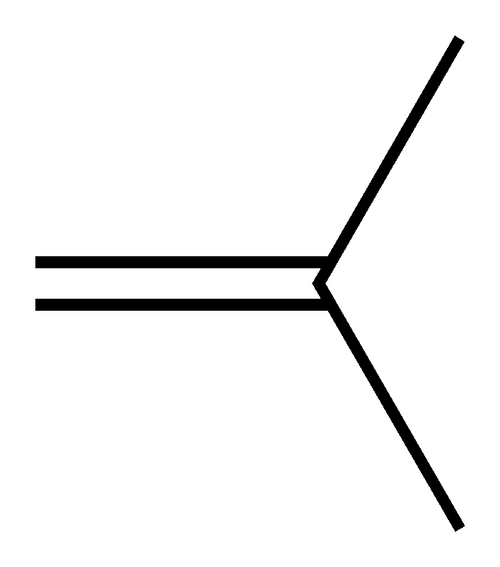 Skeletal formula of isobutylene